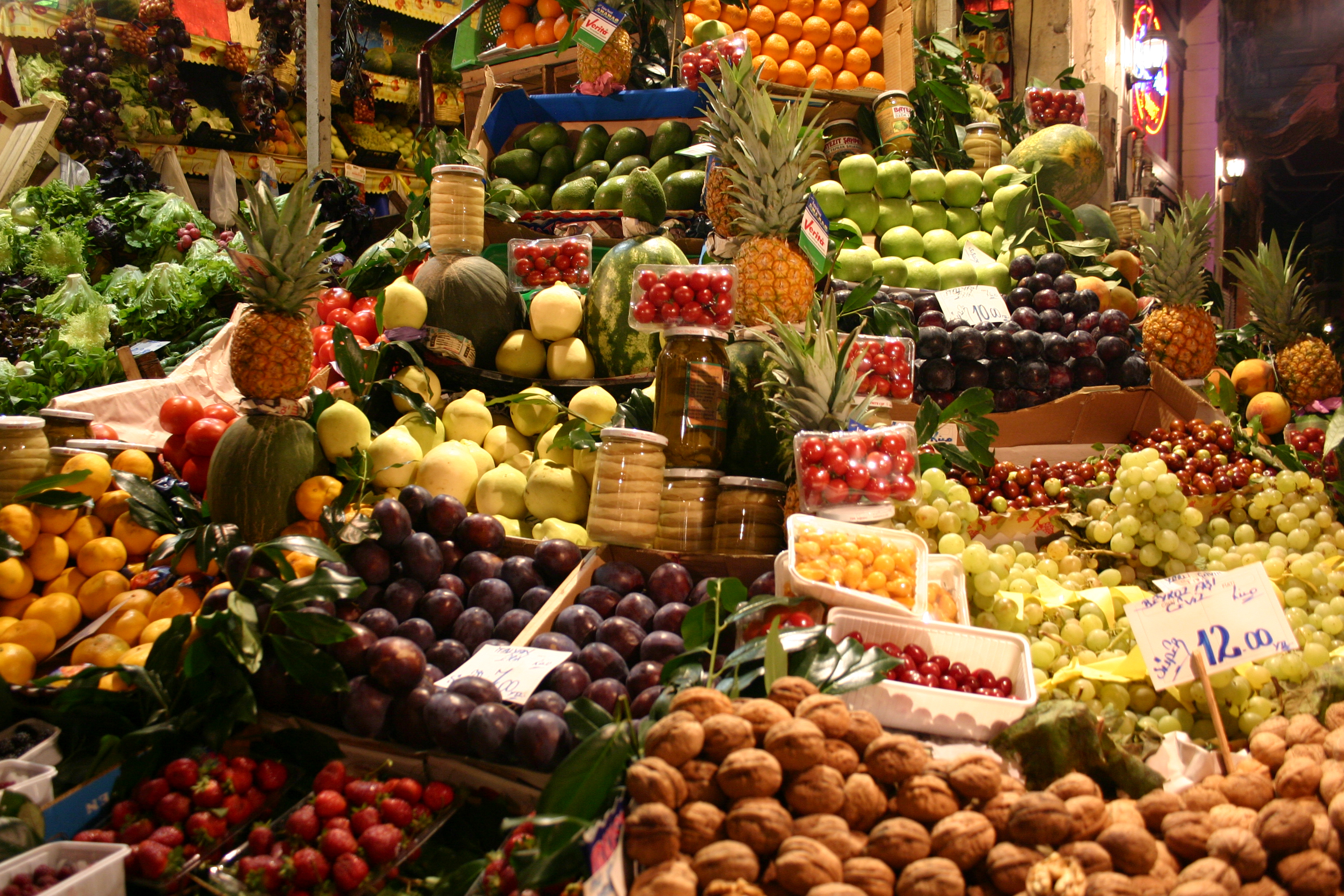 Fruits at the fish market, Istanbul. October 2006. Photo by Bertil Videt